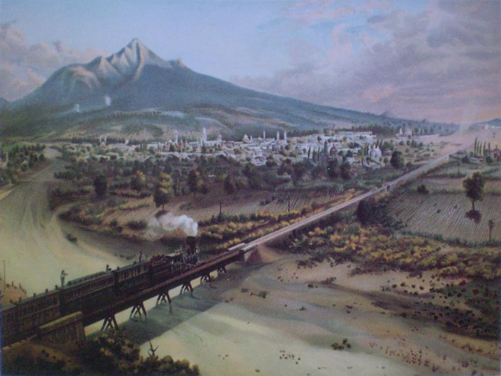 .Picture from the "Album of the Mexican Railway". Pictues by Casimiro Castro. Text by: Antonio Garcia Cubas. Published by Víctor Debray. Year: 1877 Bilanguage edition english and spanish.